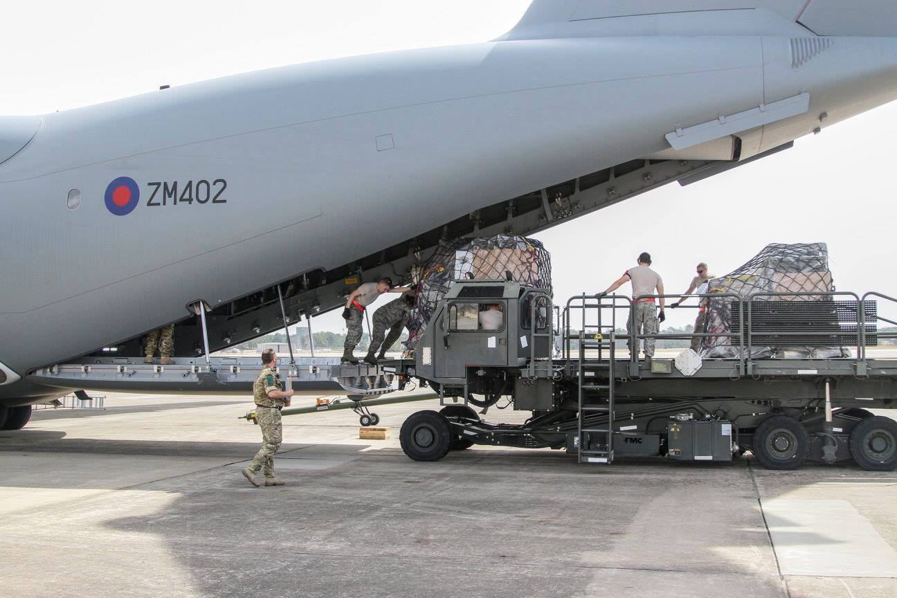 Servicemembers from the U.S. and U.K. unload supplies and equipment from an A400M Atlas, the British Royal Air Force’s newest airlift aircraft, on Pope Army Airfield, N.C., March 16, 2015. The aircraft transported equipment and supplies for the British Army’s 16 Air Assault Brigade that is currently training with the 2nd Brigade Combat Team, 82nd Airborne Division on Fort Bragg in preparation for a Combined Joint Operational Access Exercise in April. (82nd Airborne Division photo by Staff Sgt. Jason Hull/Released)